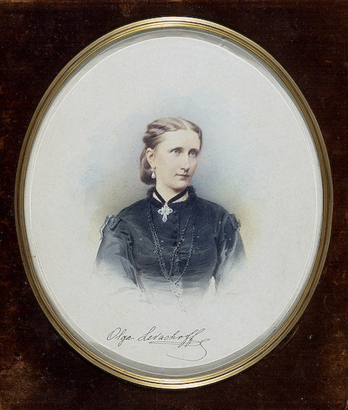 Countess Olga Levashova